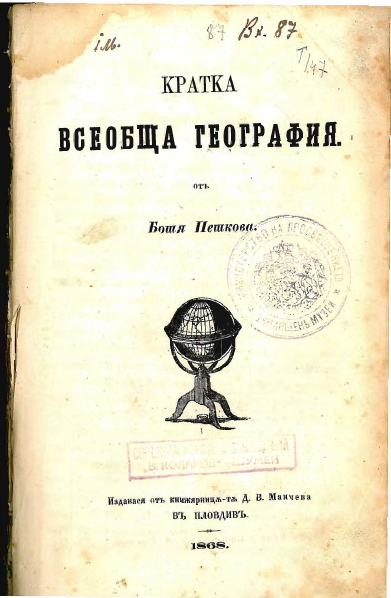 A capture of the title page of a book by Botio Petkov